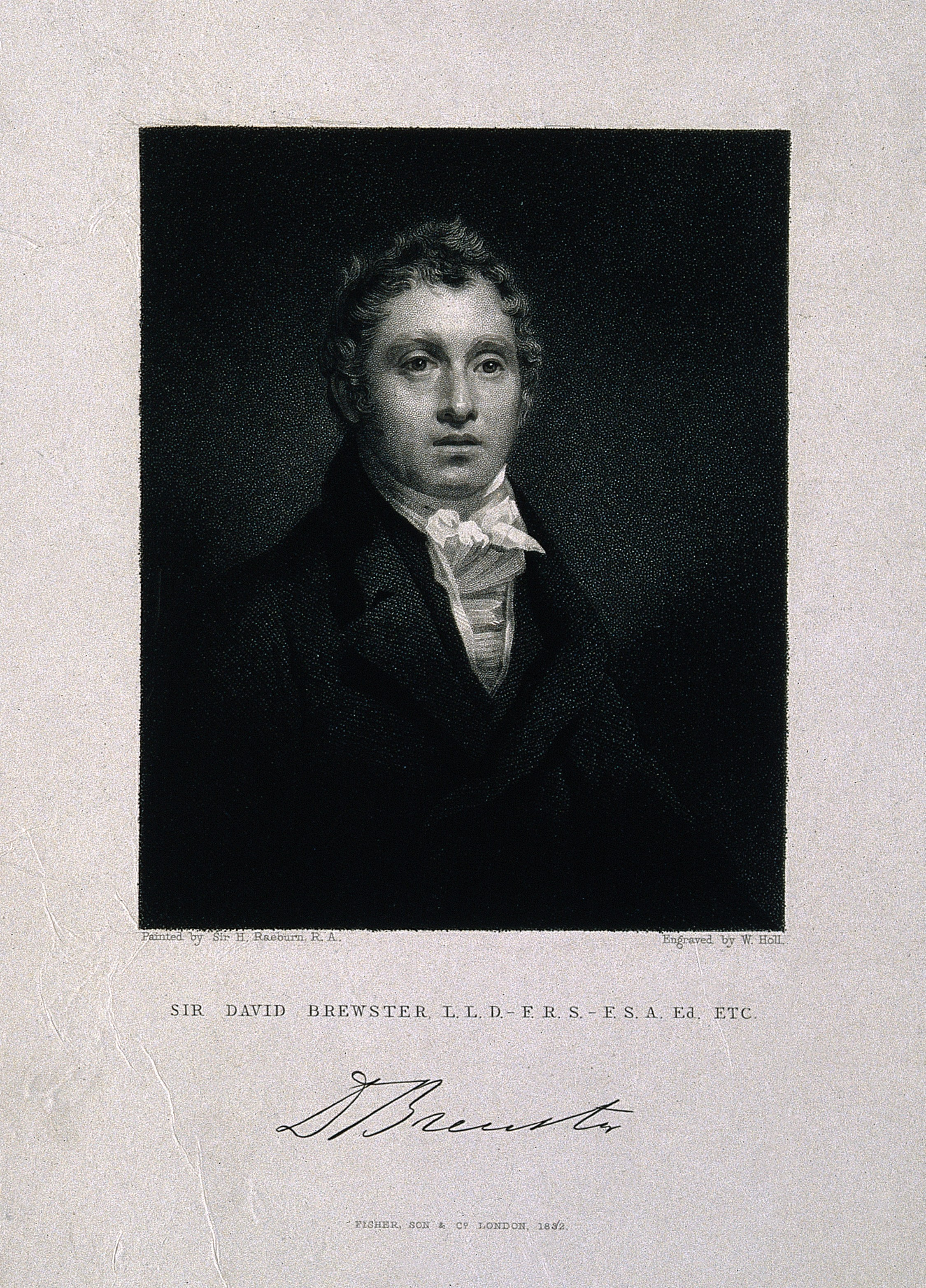 Sir David Brewster. Stipple engraving by W. Holl after Sir H. Raeburn. Iconographic Collections Keywords: Henry Raeburn; William Holl; portrait prints; brewster, david, sir, 1781-186; David Brewster; stipple prints